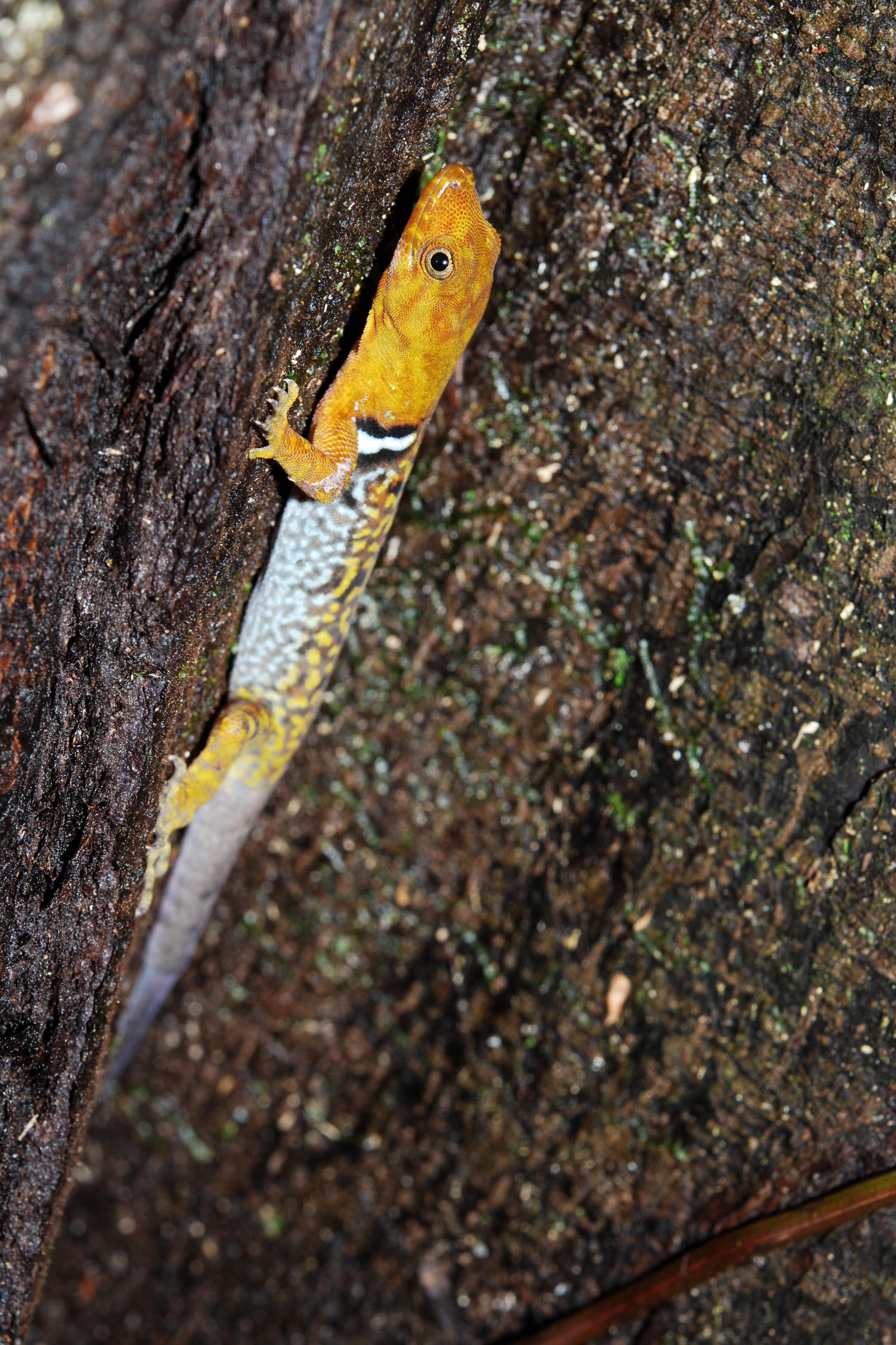 Sphaerodactylidae: Gonatodes concinnatus Found at Sacha Lodge, near Rio Napo, Eastern Ecuador.